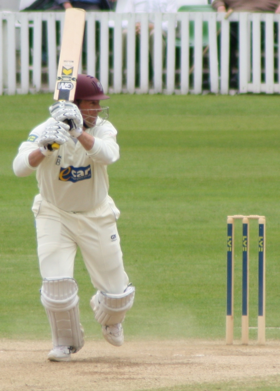 Marcus Trescothick batting for Somerset against Yorkshire in the County Championship in 2010, at the County Ground, Taunton.